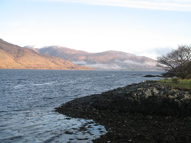 Shore of Loch Linnhe Beyond the somewhat premature keep out signs (some distance from a house), the shore of Loch Linnhe from the Corran Slip. Stob Coire a' Chearchaill in the distance with cloud above Inverscaddle Bay.